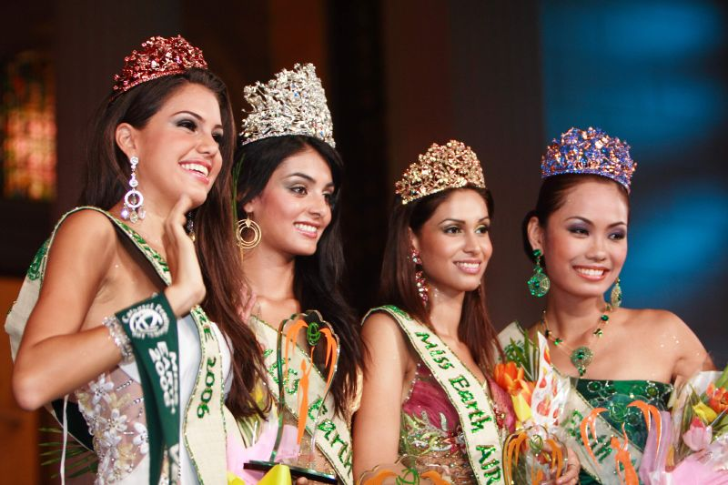 Miss Earth 2006 winners during coronation ceremonies at the Agrifina Circle grounds in the National Museum, Manila. The pageant aims to promote public awareness of environmental protection issues and promote tourism.